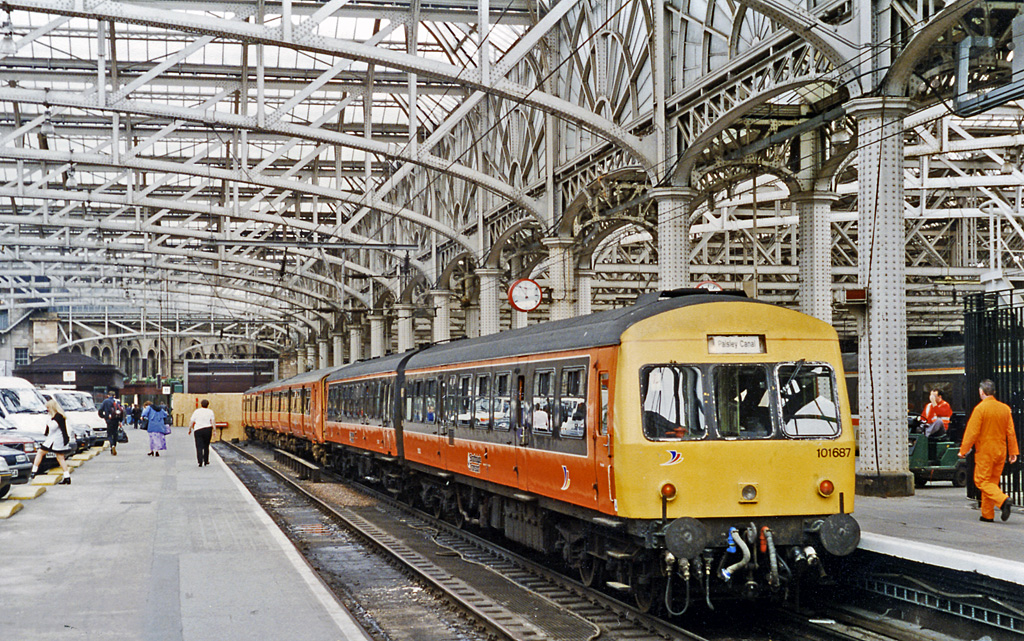 Glasgow Central Station, with local train, View northward, towards the bufferstops on Platform 8. Refurbished DMU No. 101.687 is working to Paisley Canal from Platform 7.